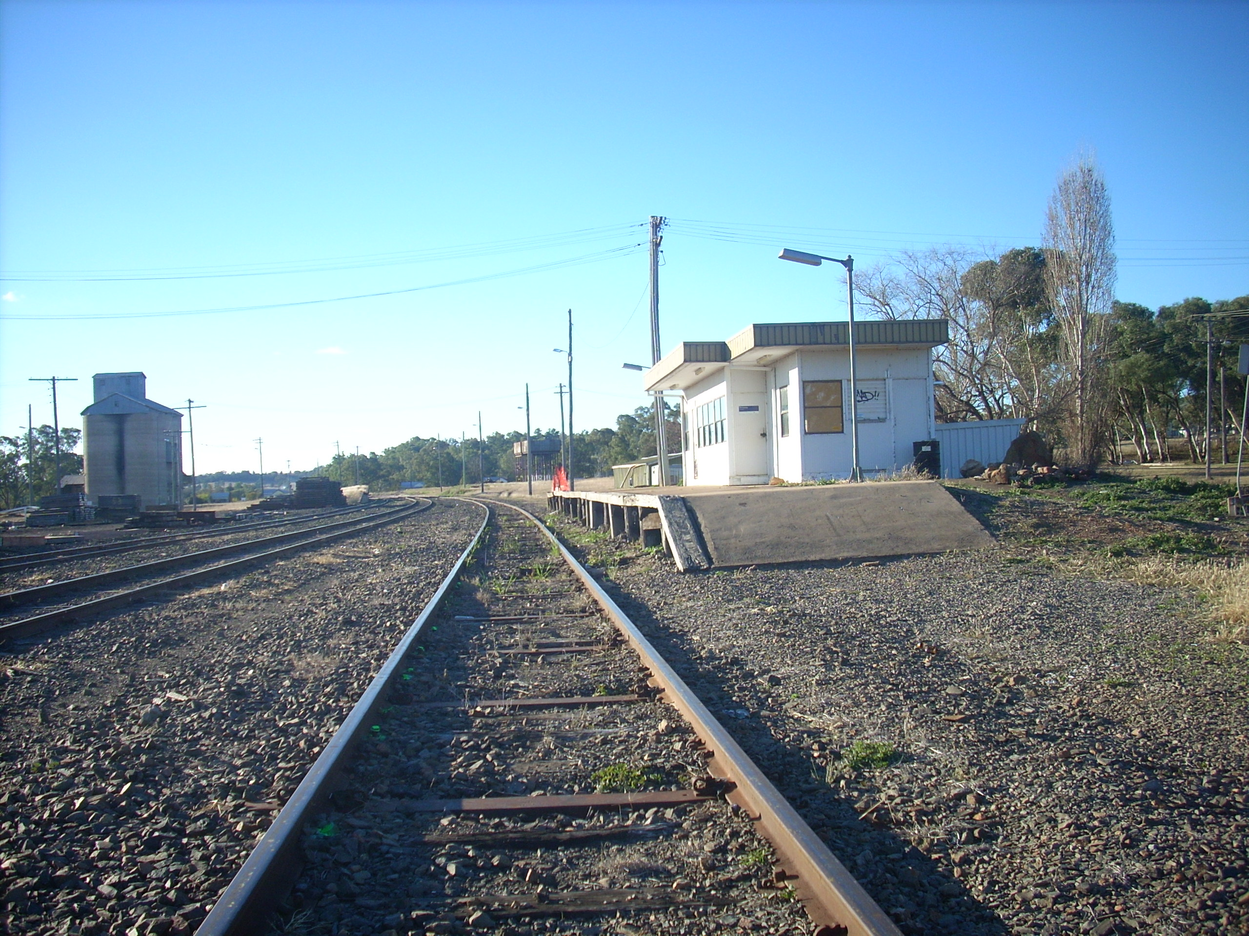 Binnaway Station Looking North